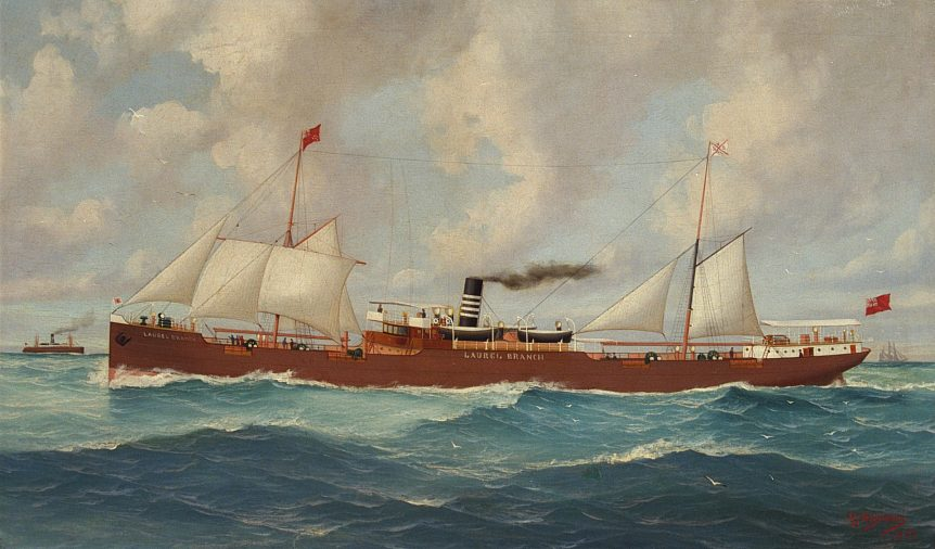 Ship portrait of the British steamship Laurel Branch, 1899